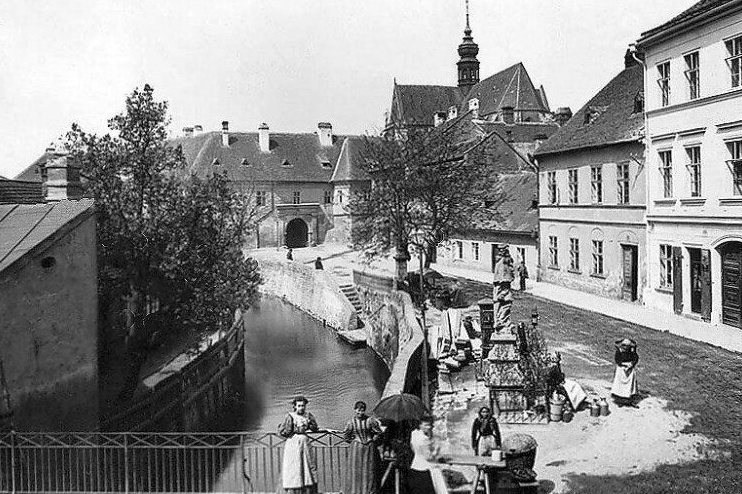 Brno, Czech Republic